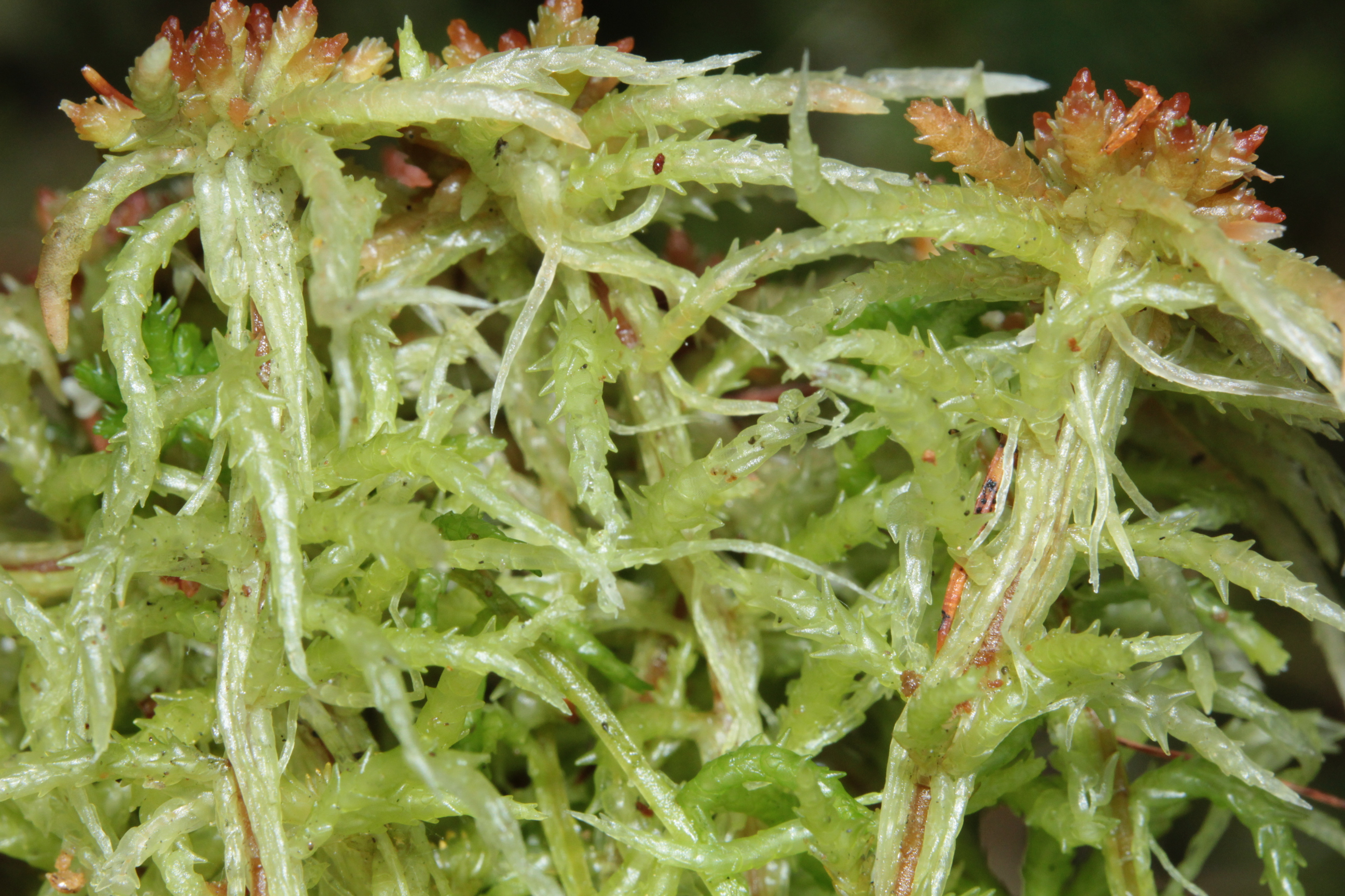 Sphagnum palustre